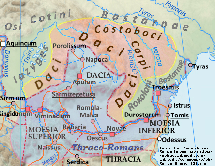 Blue: Roman influence; Orange: free Dacians. Extract from Andrei Nacu's Roman Empire [1] (first version based on NASA background NASA Shuttle Radar Topography Mission (SRTM30) and Natural Earth, PD-USGov-NASA Dacians and Romans